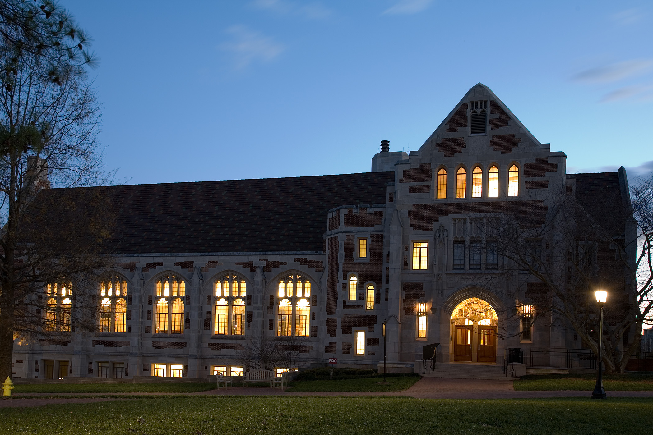 McCain Library, Agnes Scott College, Decatur, Georgia. Taken by myself on the 12th of December, 2005 with a Canon 5D and 24-105mm f/4L IS lens. Exposure of 8s at f/8.